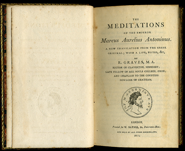 Titlepage of an 1811 edition of Meditations by Marcus Aurelius Antoninus, translated by R. Graves.